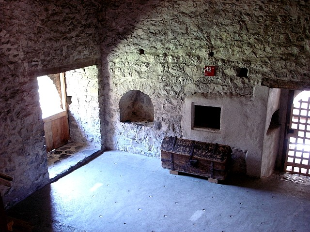 Chillon